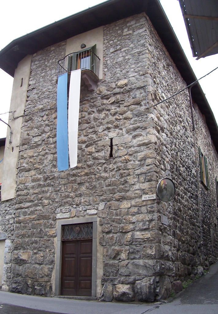 Dabeni Tower, Borno, Val Camonica